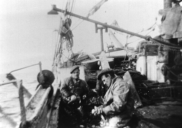 In 1951, Ingo were sold to Rune Johansson and the Holger brothers, Rune and Bertil Ivarsson on Klädesholmen. Due to the renovations, the price were now at 115 000 kr. Ingo now went with cargo between Sweden and Germany, and also took part in the Iceland-fishing during the summer. This fishing were their largest source of income.